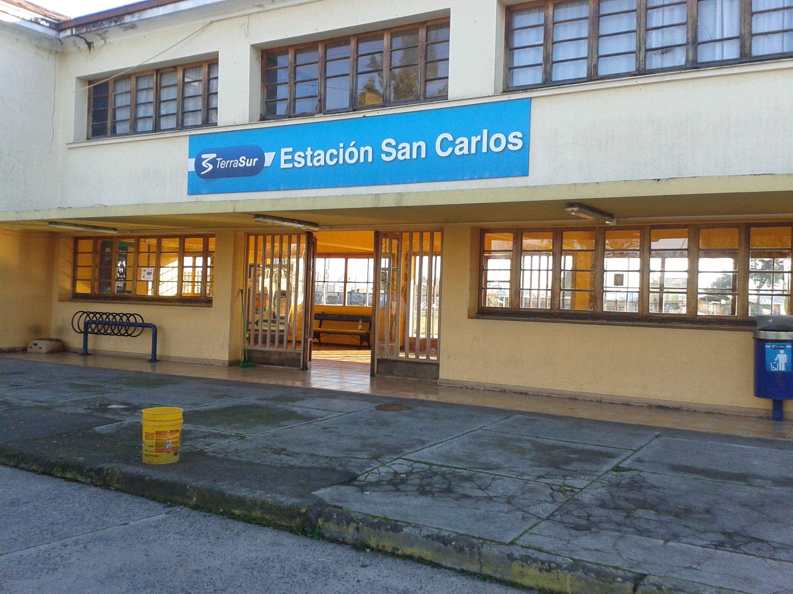 Train station San Carlos,Chile.